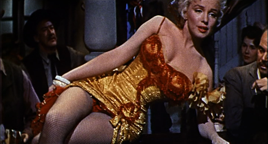 Marilyn Monroe in River of No Return (1954)